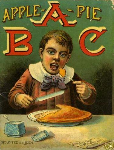 Apple Pie ABC